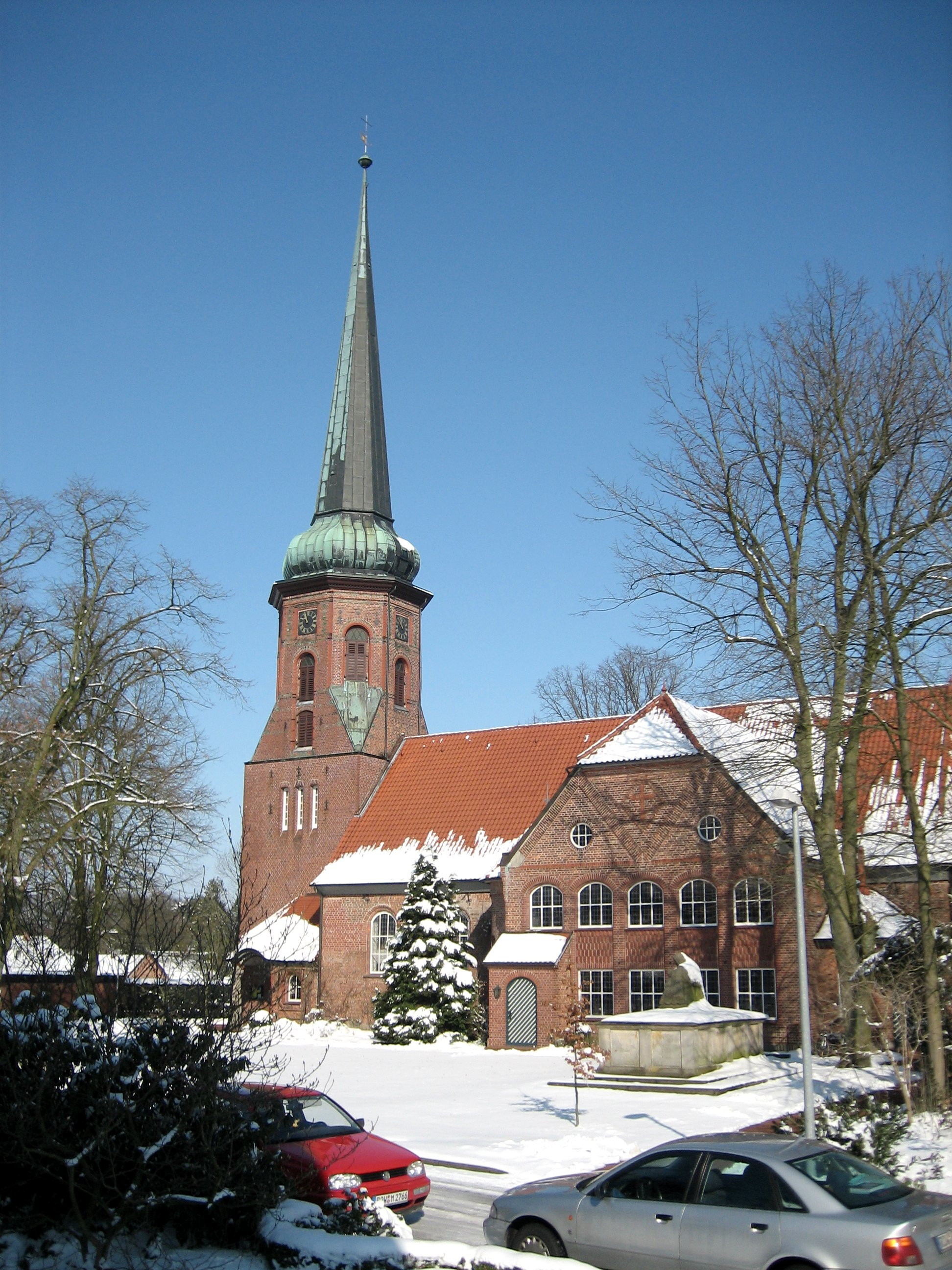 Photograph of the Evangelical Lutheran St. Dionysius Church in Sittensen, Lower Saxony, Germany